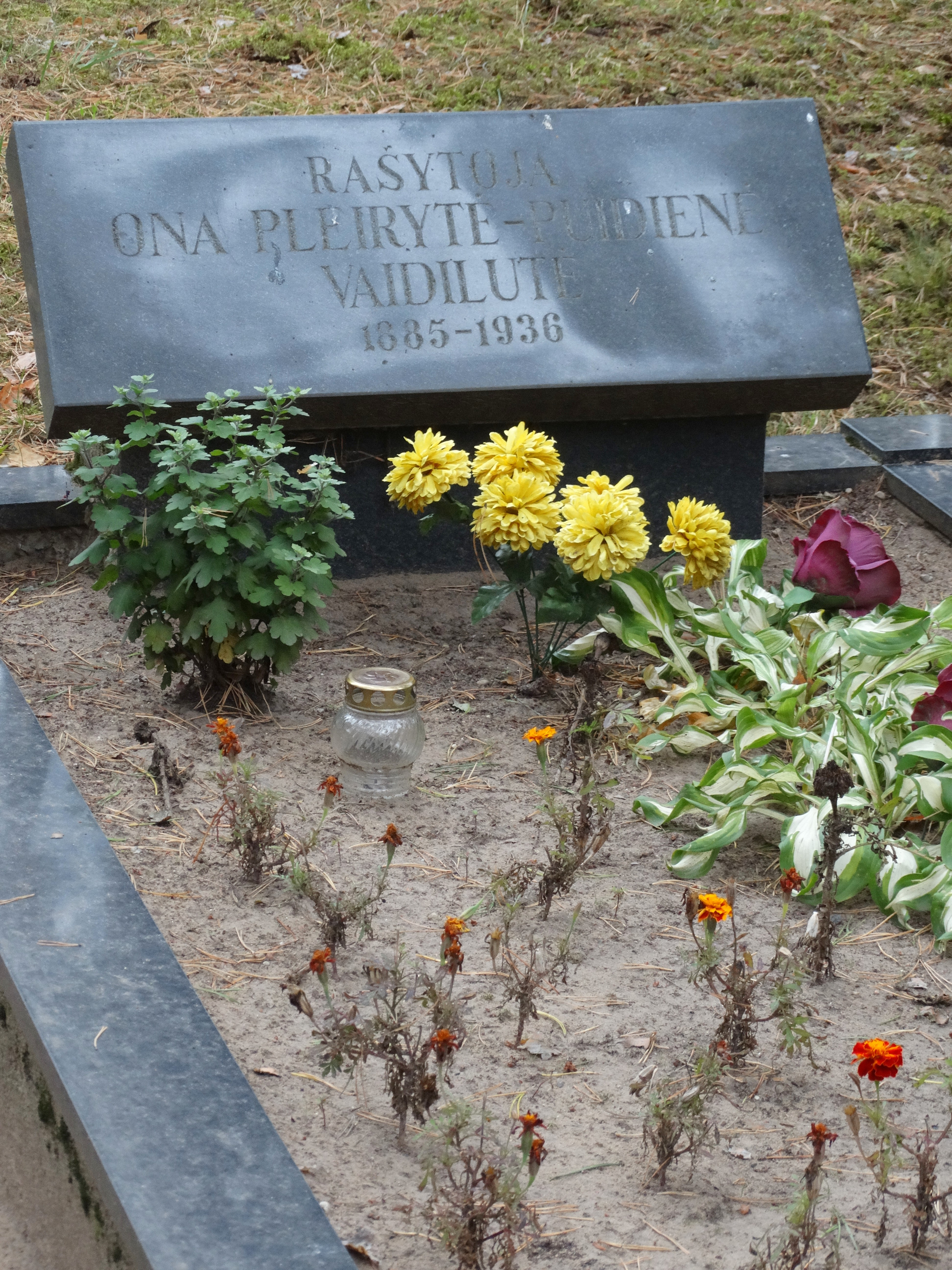 Tomb of Ona Pleirytė-Puidienė, Petrašiūnai, Lithuania